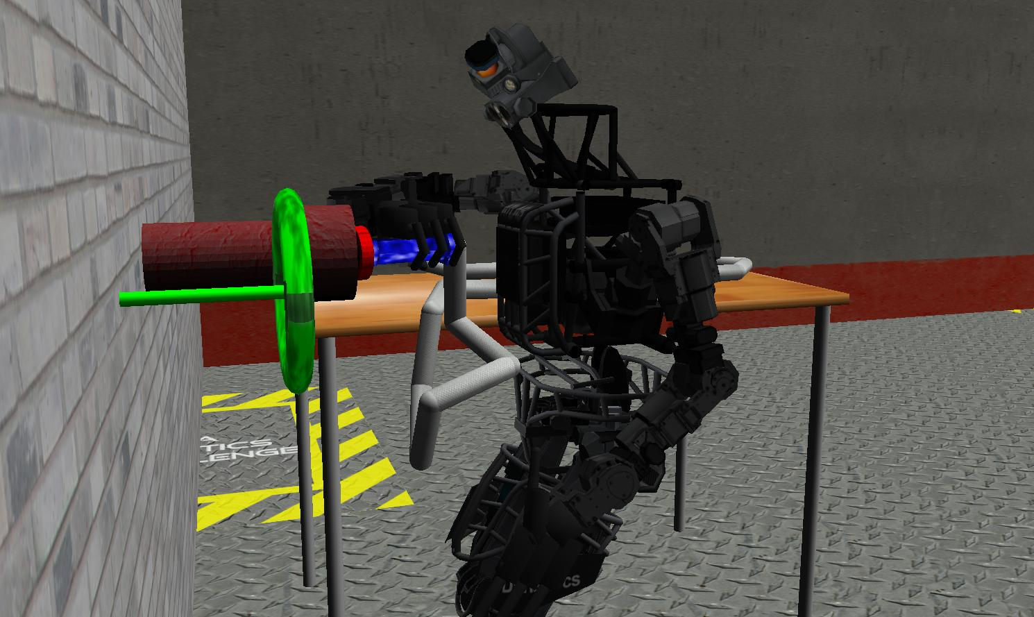 A simulated image of an Atlas robot connecting a hose to a pipe.